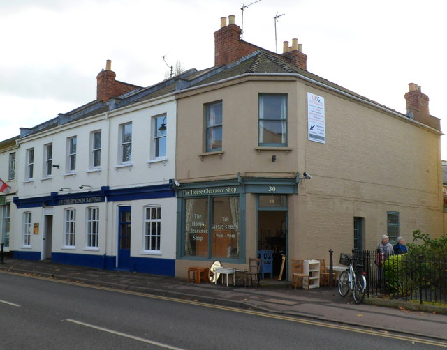 The House Clearance Shop, Cheltenham